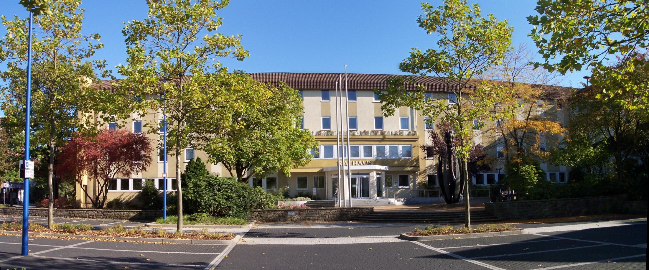 Oer-Erkenschwick Rathaus